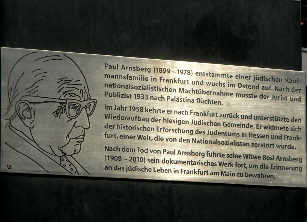 Paul Arnsberg Memorial at Paul Arnsberg Platz in the borough Ostend of Frankfurt am Main, Hesse, Germany.